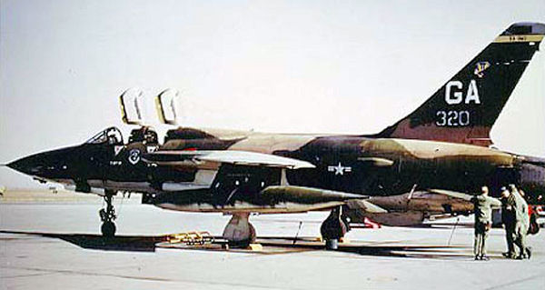 Republic F-105G (S/N 63-8320) of the 561st Tactical Fighter Squadron, 35th Tactical Fighter Wing, George Air Force Base, Calif., in November 1973. This aircraft is on display at the National Museum of the United States Air Force.